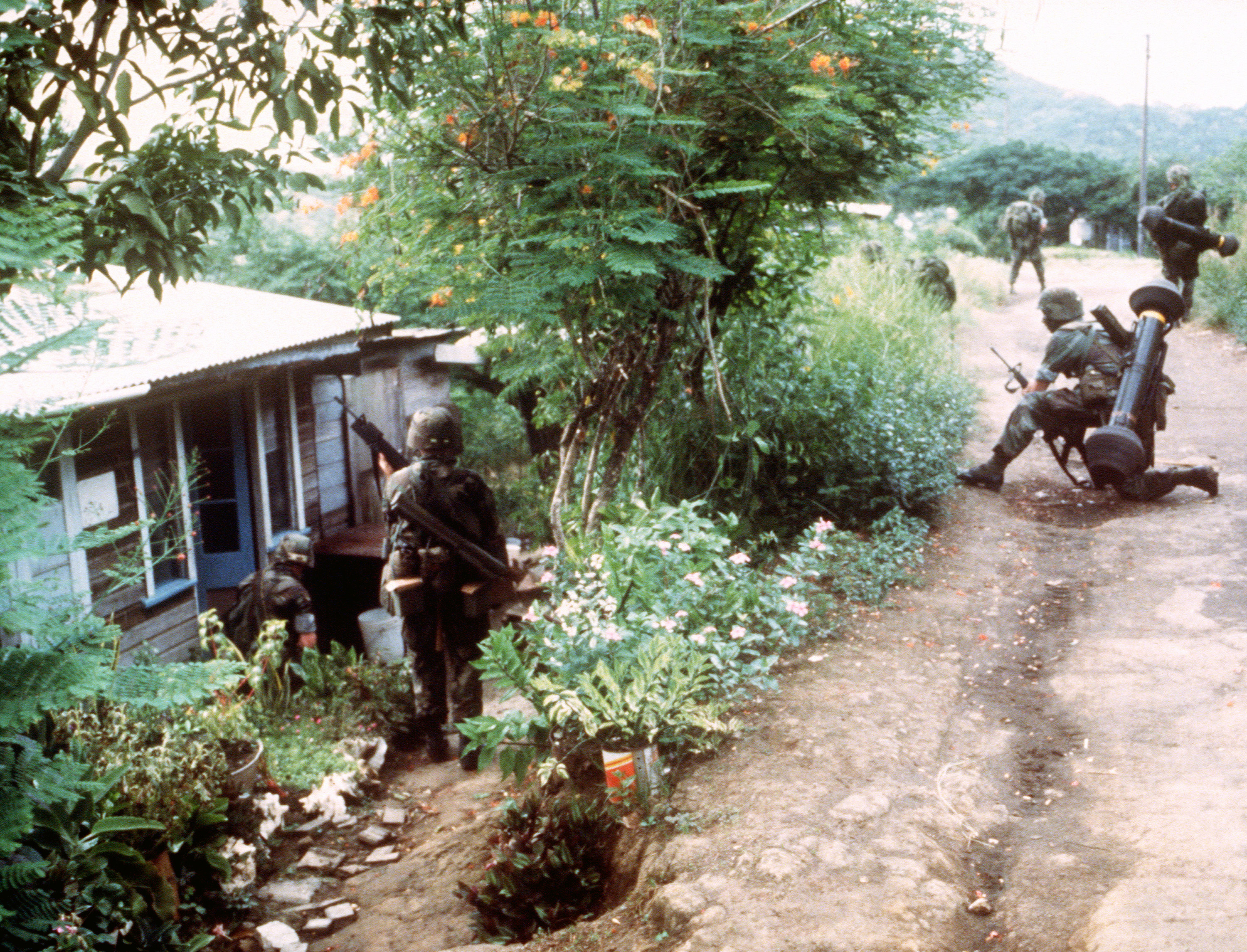 U.S. Army soldiers of 1st Platoon A Co. 1st Bn ABN/508th Inf,82d Airborne Division on patrol on Grenada during "Operation Urgent Fury" in October 1983. Two of the soldiers (Spc/4 Mitchel facing left foreground) on the road have M47 Dragon antitank weapons.